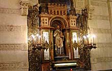 Altar de Sant Ignasi de Loiola, Barcelona